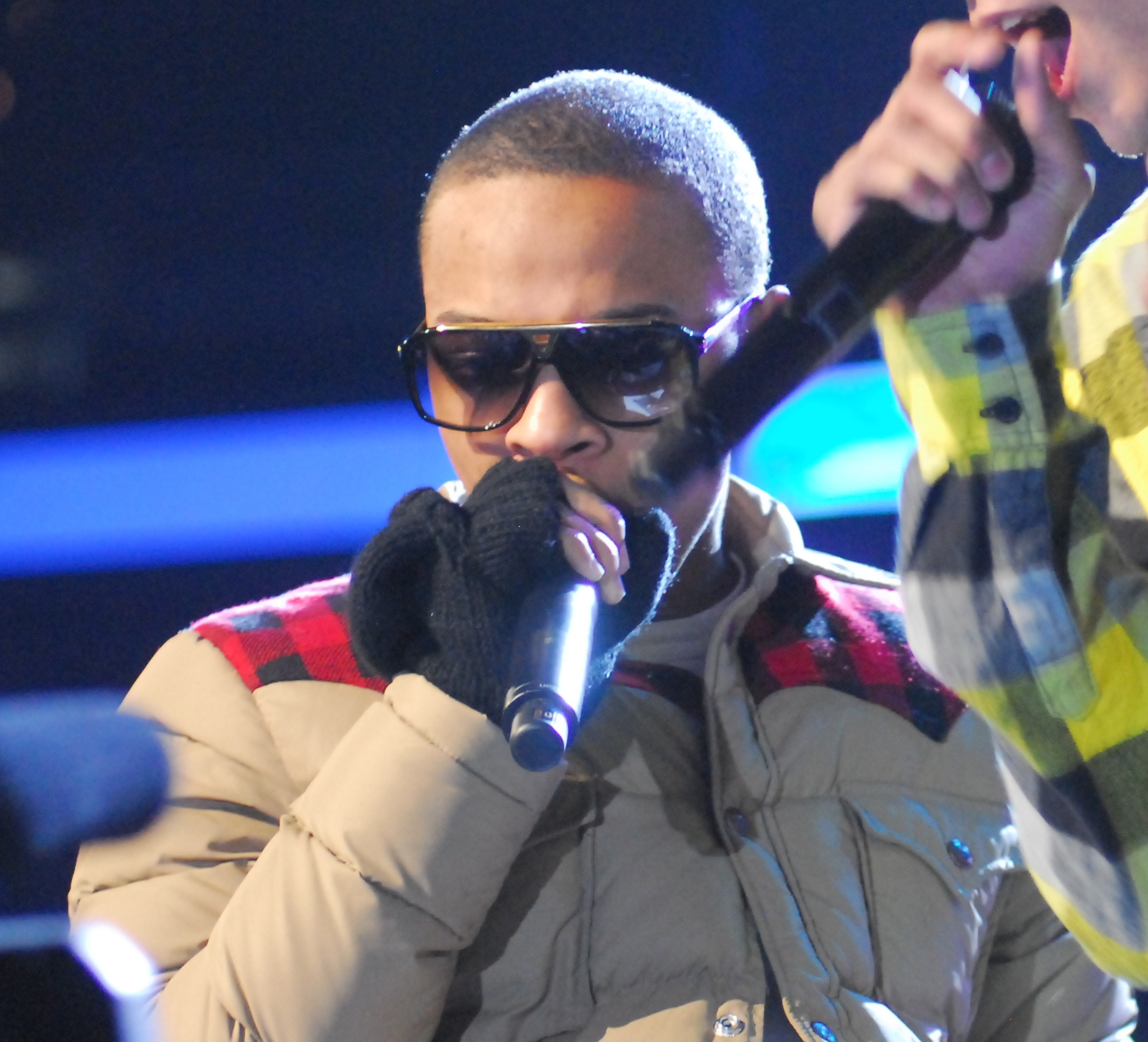 Bow Wow performed at the "Kids Inaugural: We Are the Future" concert at the Verizon Center in downtown Washington, D.C., Jan. 19, 2009